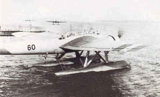 Royal Norwegian Air Service Heinkel He 115Ns, F.60 in the nearest the camera.